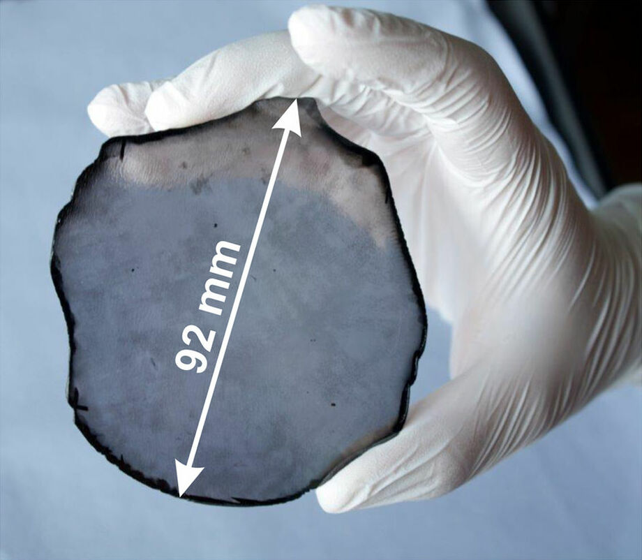 Freestanding unpolished diamond single crystal synthesized by heteroepitaxy on Ir/YSZ/Si(001). The thickness of the disc is 1.6 ± 0.25 mm and its weight is 155 carat.